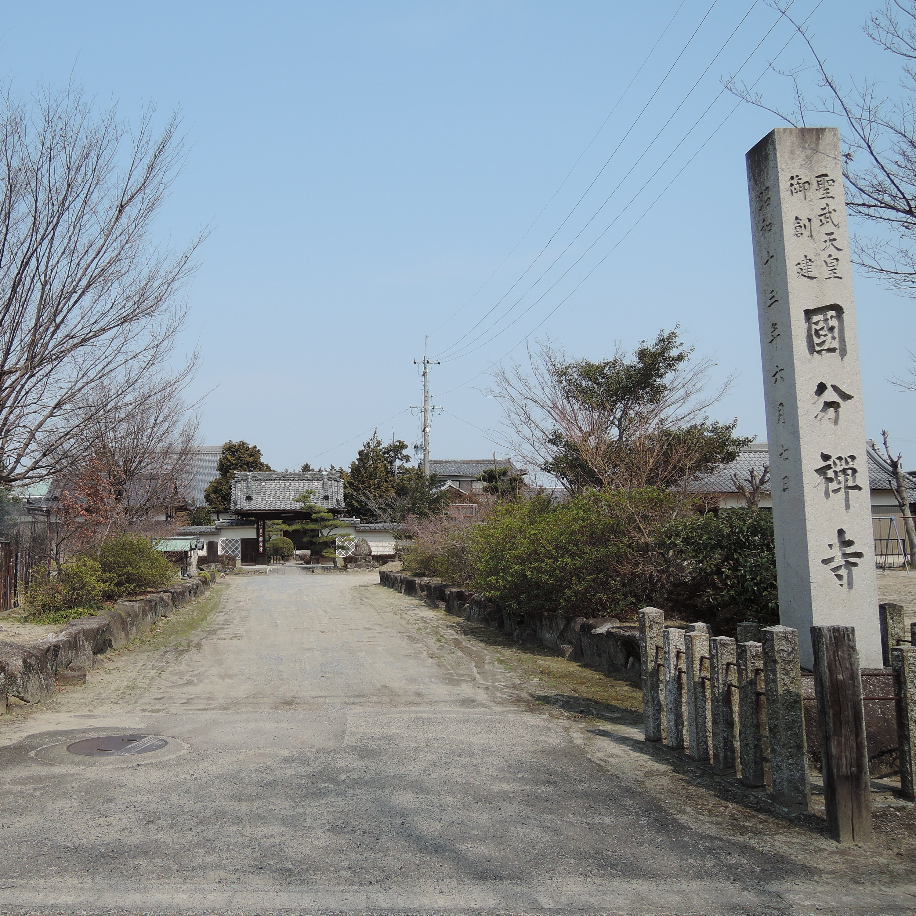 Owari Kokubun temple,Aichi prefecture,Japan